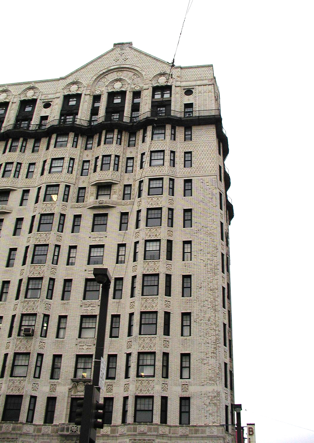 Hotel Theresa building in Harlem, NYC at the corner of Adam Clayton Powell Jr. Boulevard and Martin Luther King, Jr. Boulevard (7th Avenue and 125th Street). I (Petri Krohn) took this picture in March 2005. Category:Photographs by User:Petri Krohn